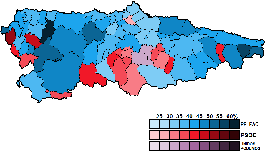 Most-voted party in Asturias municipalities, showing vote share obtained, in the Spanish general election, 2016.